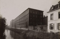 Manufactury "La Lys" in Gent (Ghent) by Edmond Sacré (1851-1921) Unknown